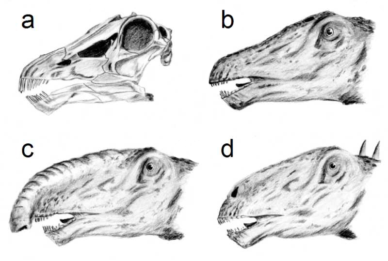 Diplodocus heads, pencil drawing. They are based on skull specimen USNM 2673, which is now Galeamopus pabsti. a) skull, b) classic rendering of the head with nostrils on top, c) with speculative trunk, d) modern depiction with nostrils low on the snout and a possible resonating chamber.